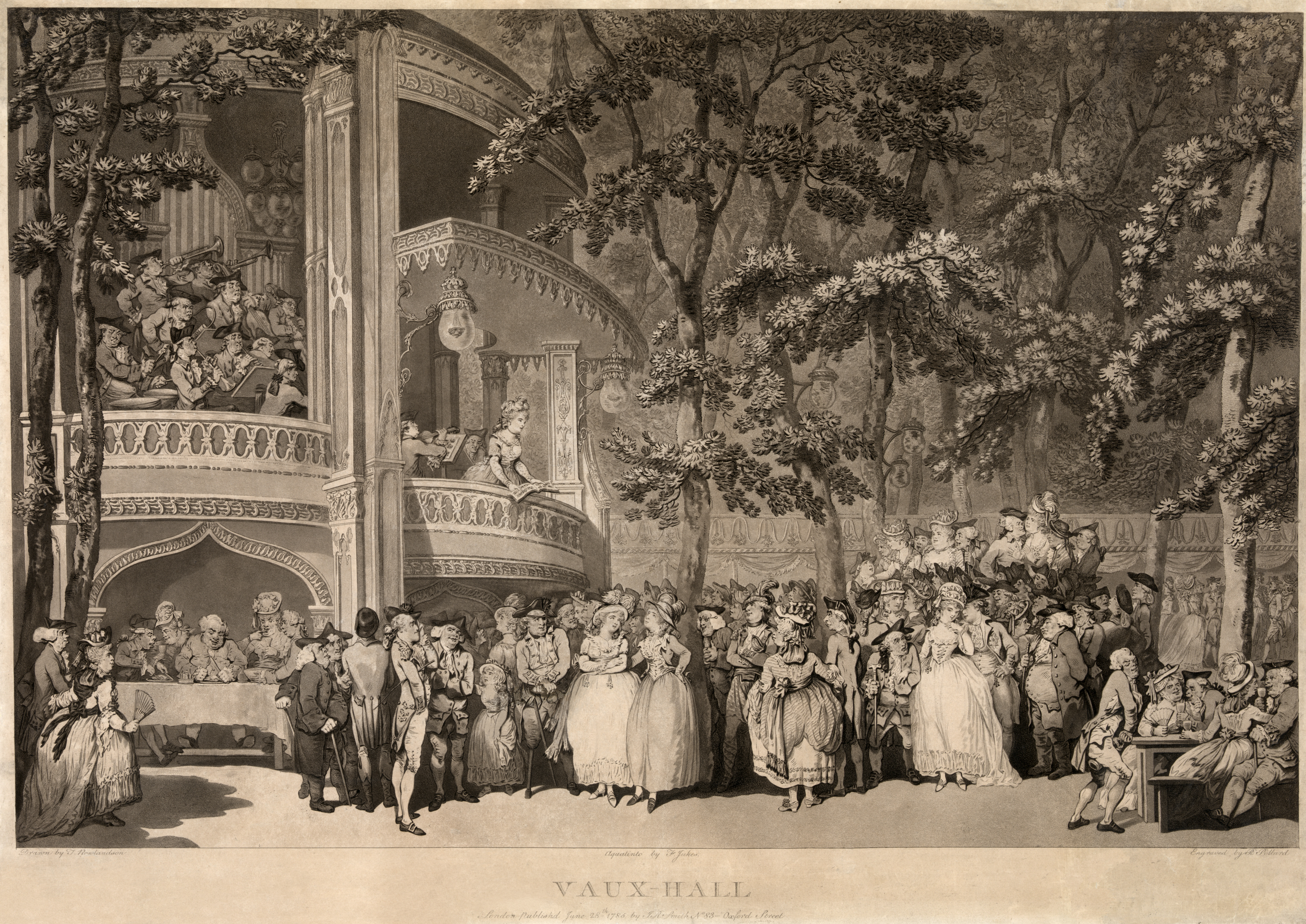 N.B. This is a very early version of a restoration I'm working on. Library of Congress description: Print showing large crowd gathered before pavilion in Vauxhall Gardens where Mrs. Weichsel ([Elizabeth] Billington) [sic, see below] is singing, in the lower left, Dr. Johnson is seated at a table, eating, facing front, with James Boswell and Oliver Goldsmith seated at the ends of the table, to the right of center, the Prince of Wales [later George IV] is whispering in the left ear of Perdita (Mrs. [Mary Darby] Robinson). N.B.: The singer is not Elizabeth Billington, but her mother, Frederika Weichsel. Additional information: The image description page of a previous, low-res version on en-wiki says that the two women in the centre are Georgiana, Duchess of Devonshire and her sister Lady Duncannon. No source is given.